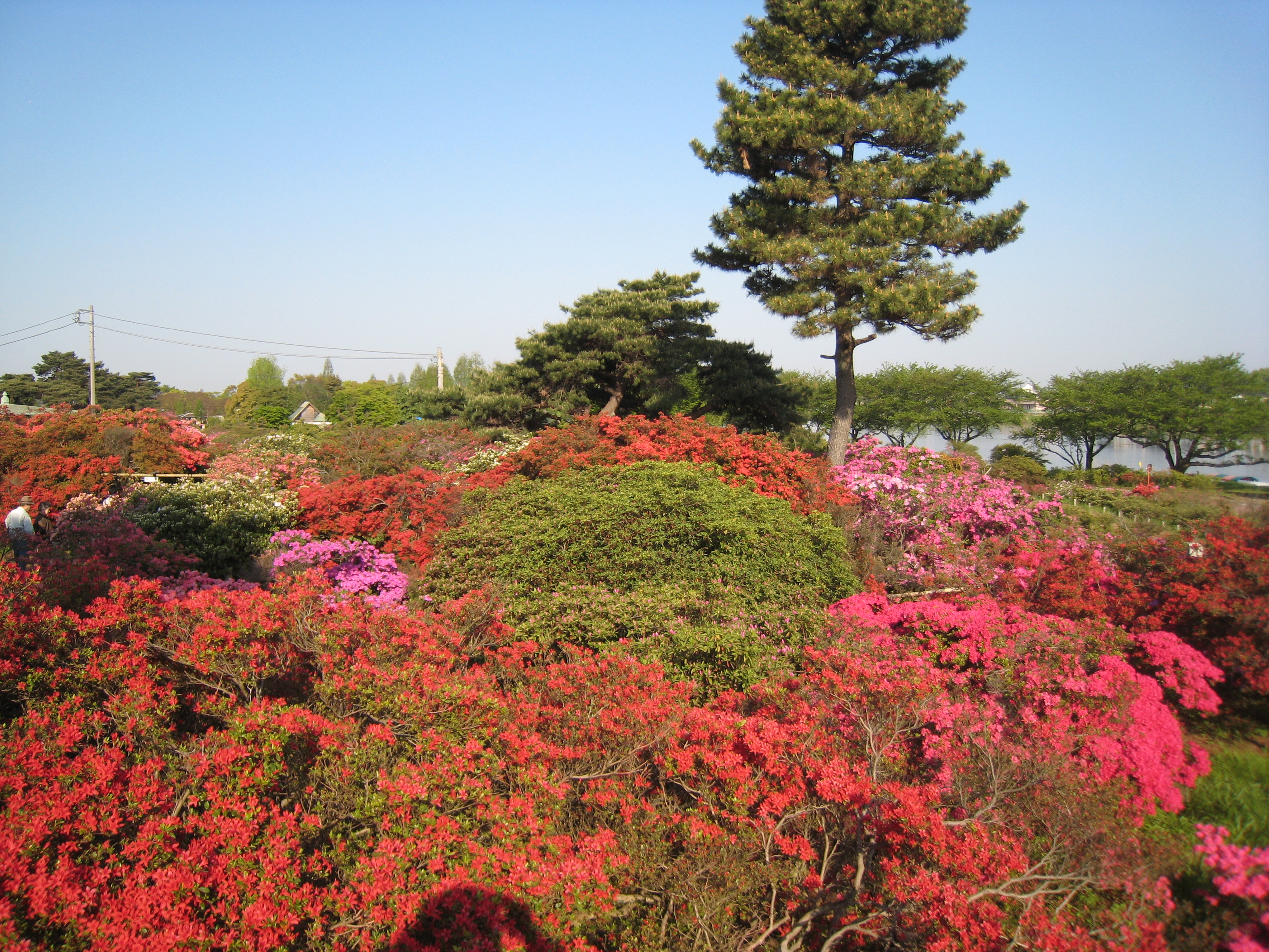 Tsutsuji-ga-oka koen meaning "Azalea Hill Park" in Tatebayashi, Gunma Pref., Japan